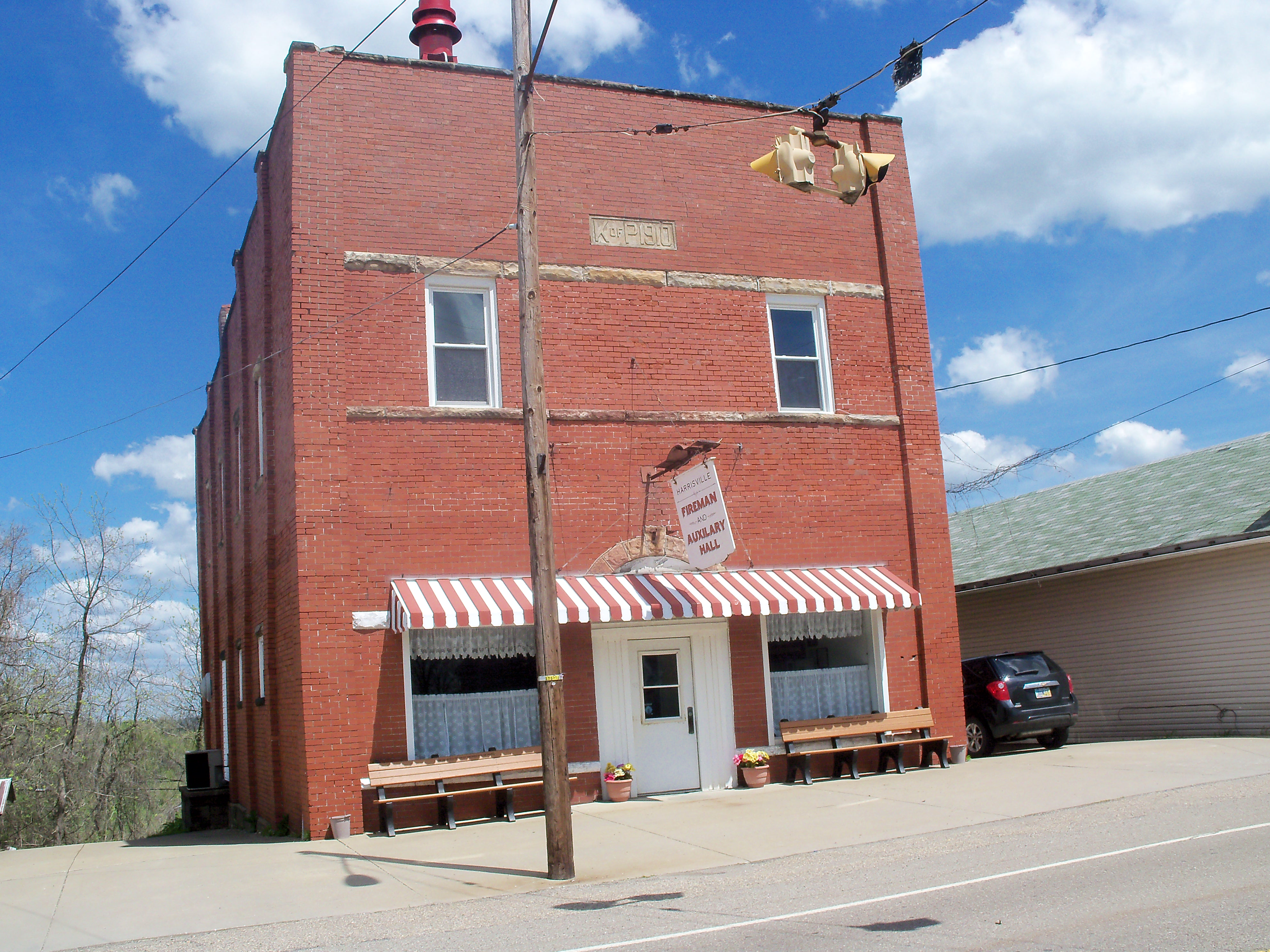 Volunteer fire department and lady's auxilary (sic) have this hall for social and fundraising functions in Harrisville, Ohio